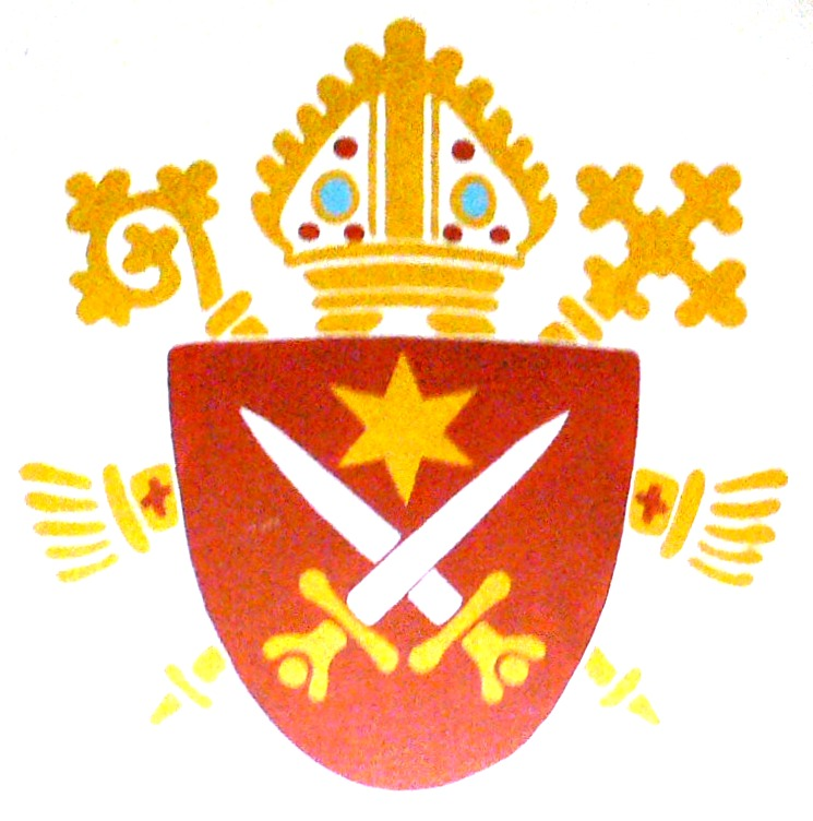 Coat of arms of the roman-catholic diocese of Essen, Germany.